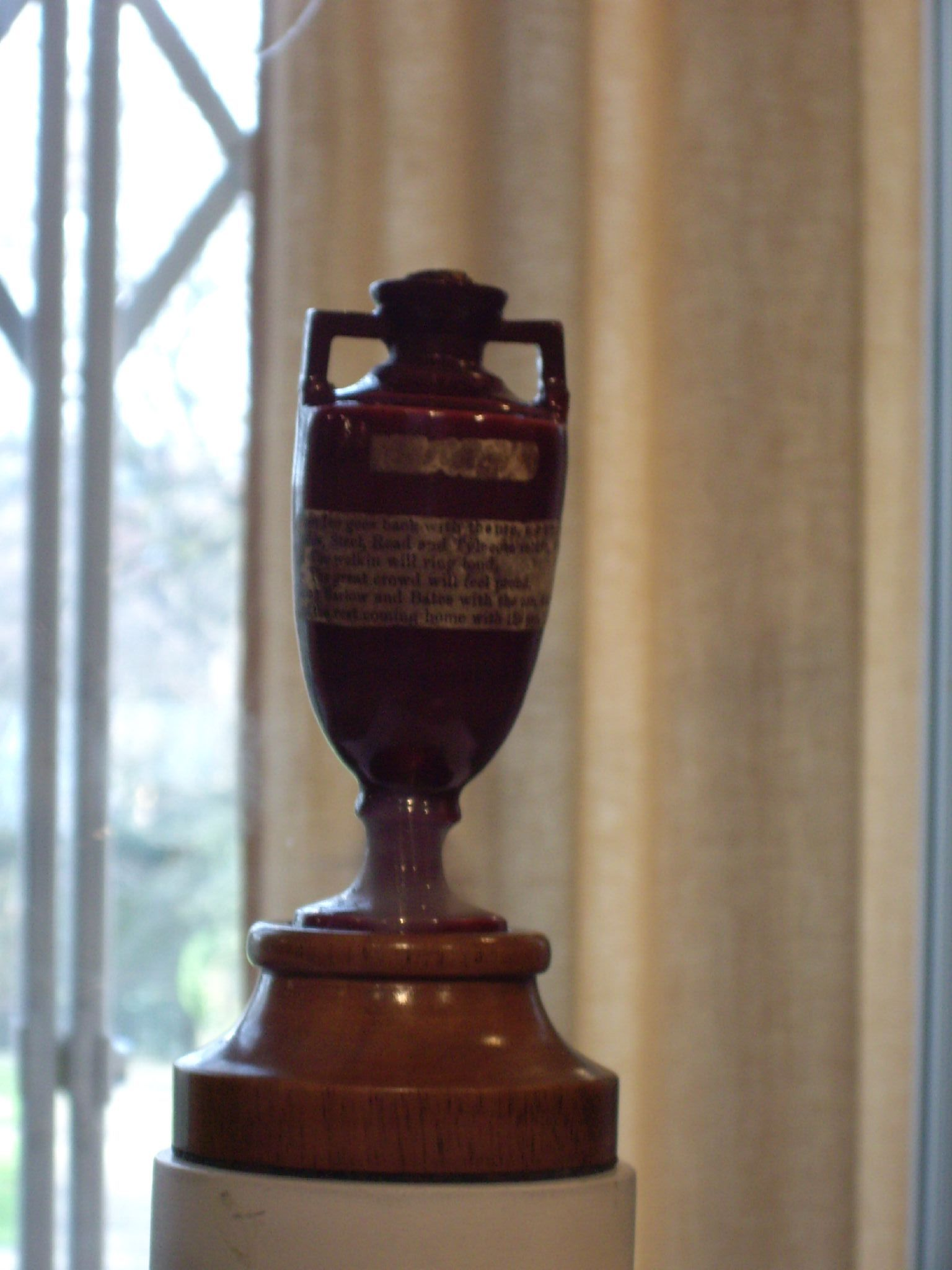 The Ashes Urn